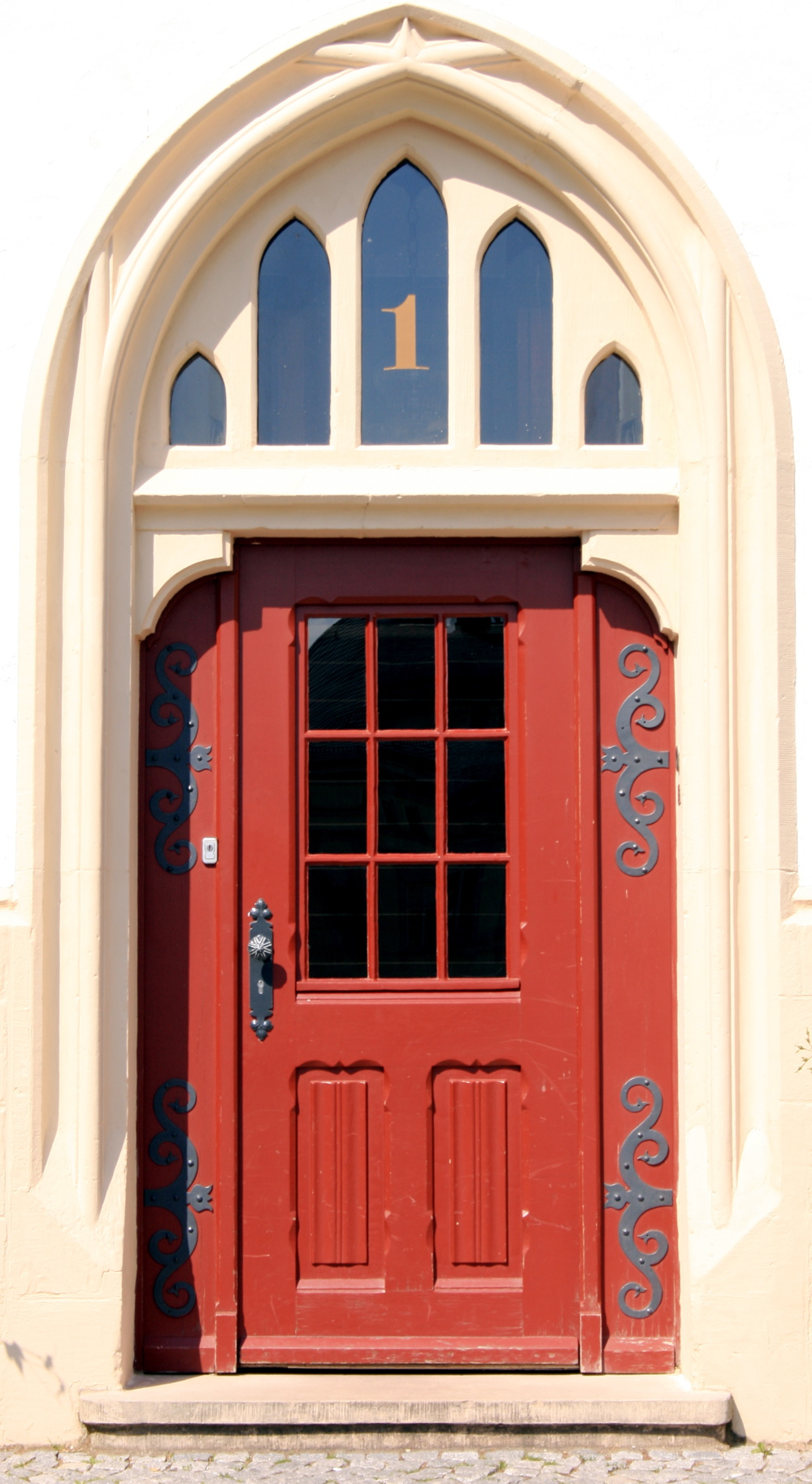 Town Hall-Eisleben-main entrance